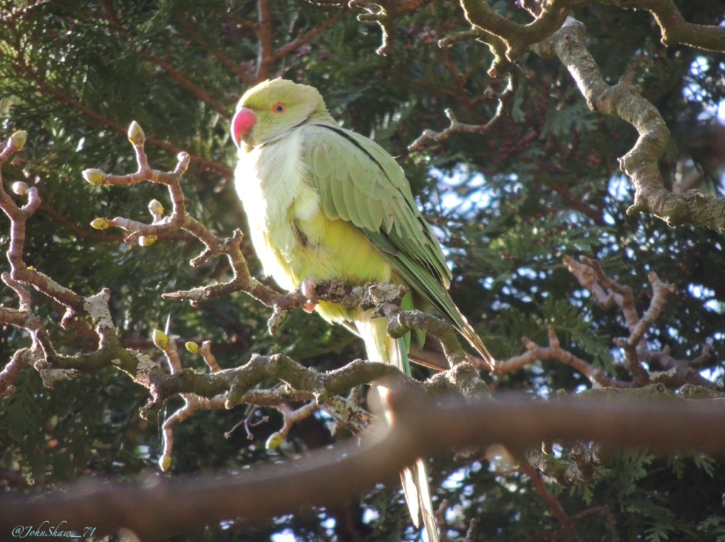 One of the Sefton Park Parakeets....